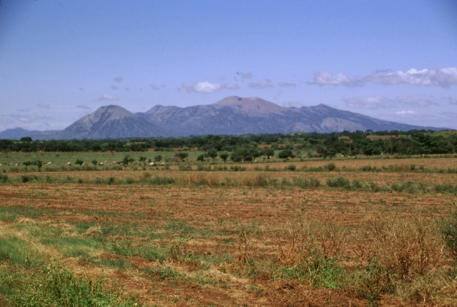 Las Pilas volcanic complex forms a broad massif seen here from the SSE rising above the Nicaraguan depression. This 30-km-long chain was erupted along a N-S-trending fissure and includes (from left to right) conical Asososca volcano, flat-topped Cerro Los Tacanistes, the unforested summit of Las Pilas itself (the high point of the range), and Cerro El Picacho.